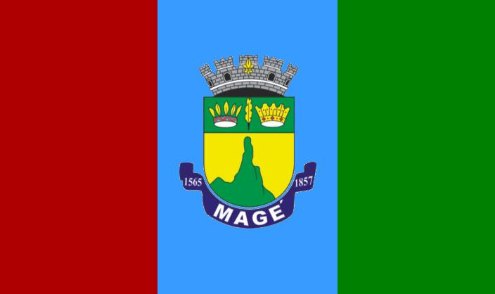 Flag of the city of Magé, Rio de Janeiro, Brazil